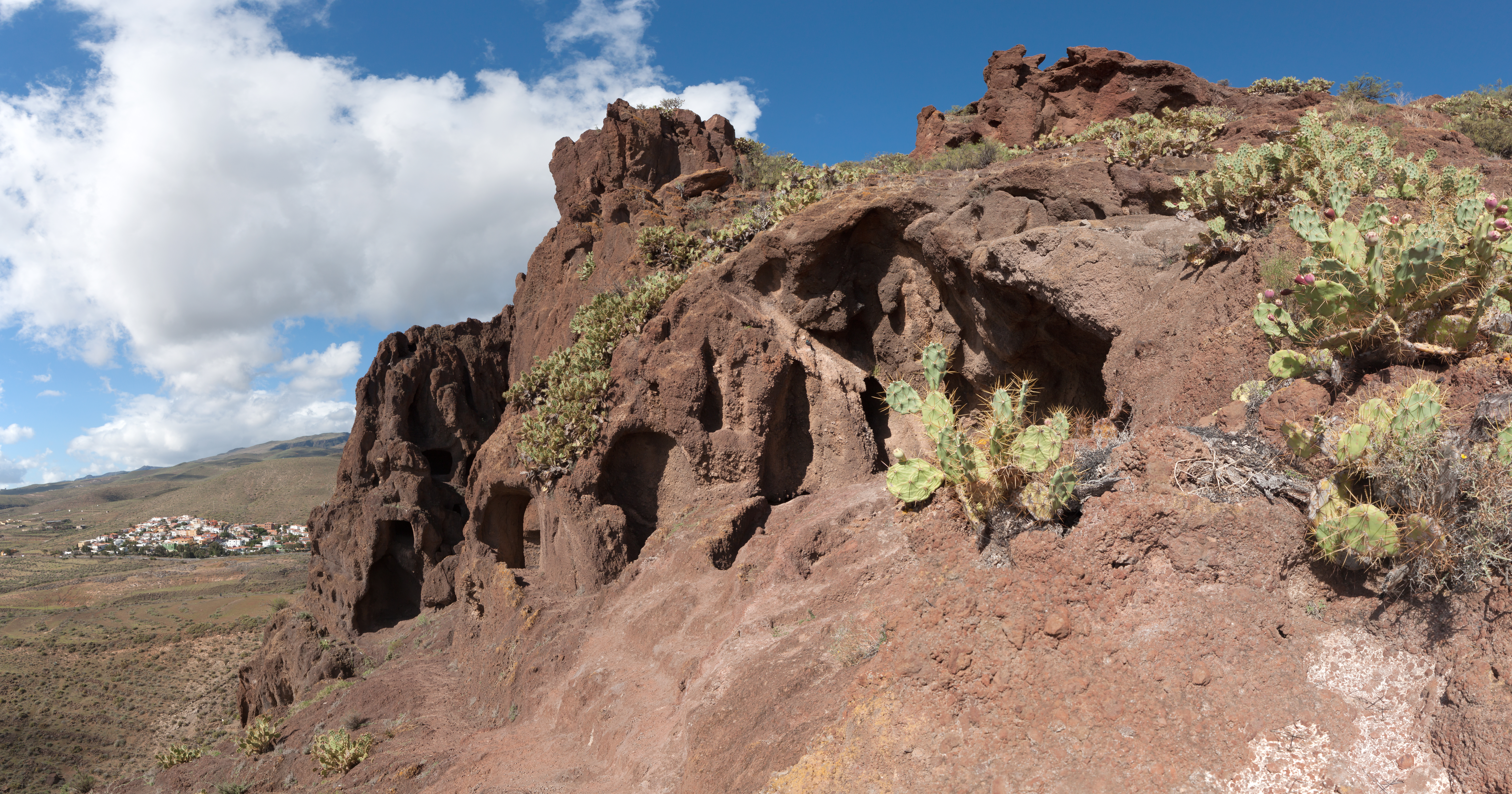 Cueva de los Pilares, Archaeological area of Cuatro Puertas, Telde, Gran Canaria, Canary Islands, Spain.